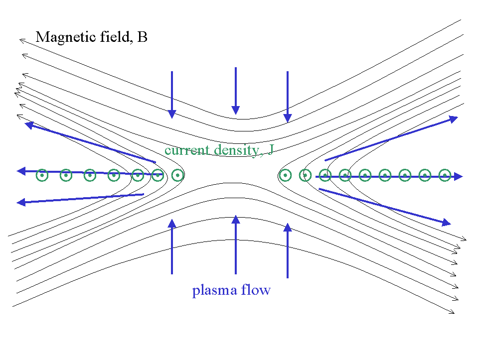 Schematic of magnetic reconnection.